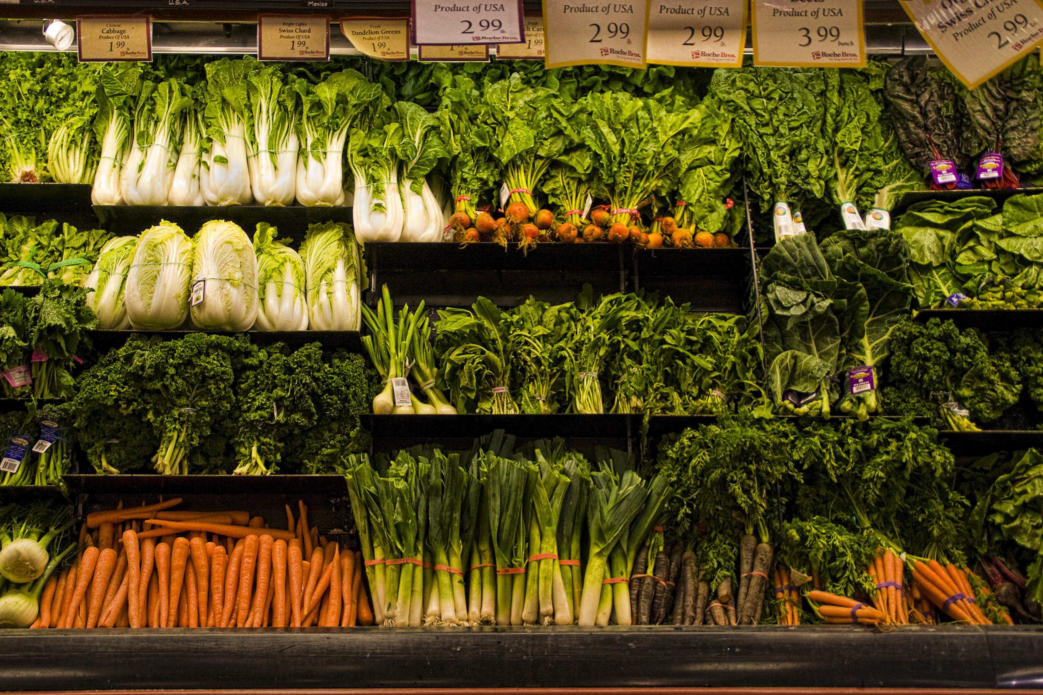 veggies